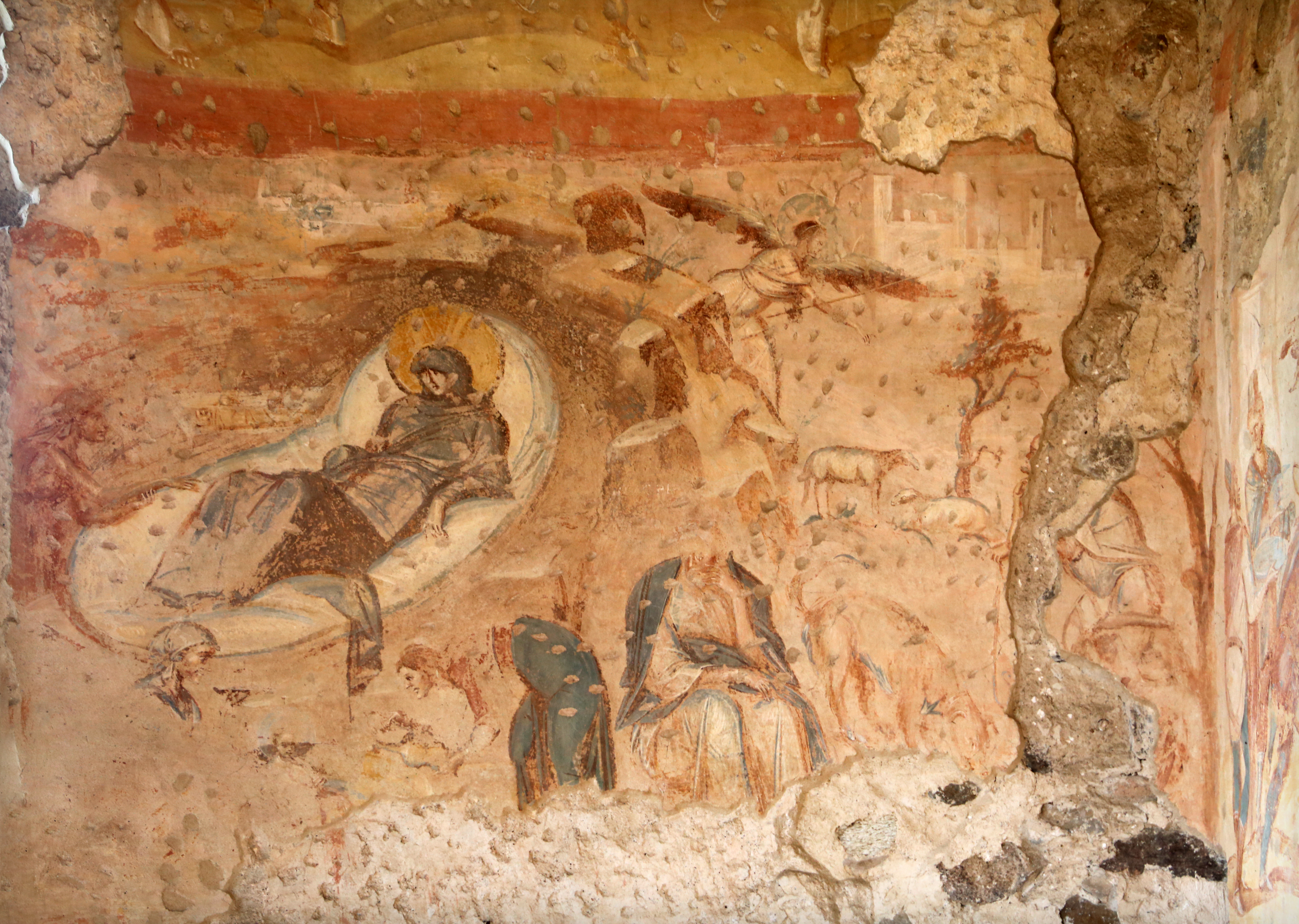 Santa Maria foris portas in Castelseprio